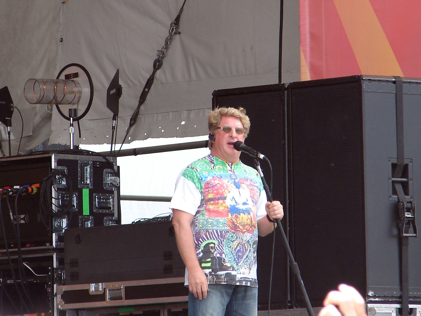 Quint Davis (festival director/co-founder) at 2008 New Orleans Jazz & Heritage Festival